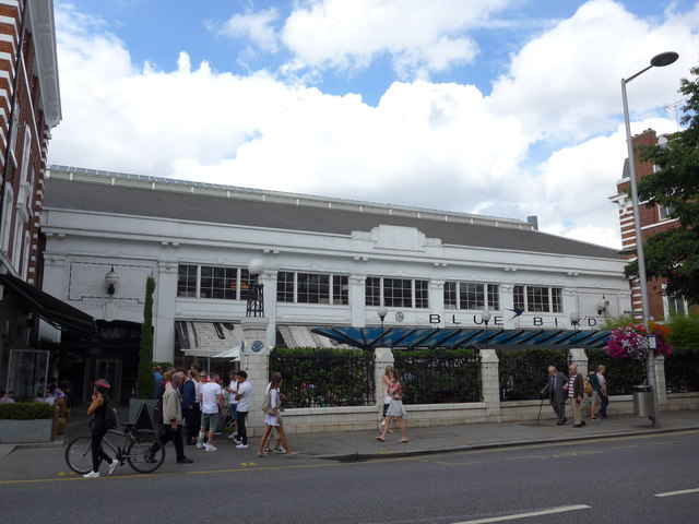 People queueing to get into Blue Bird, Kings Road